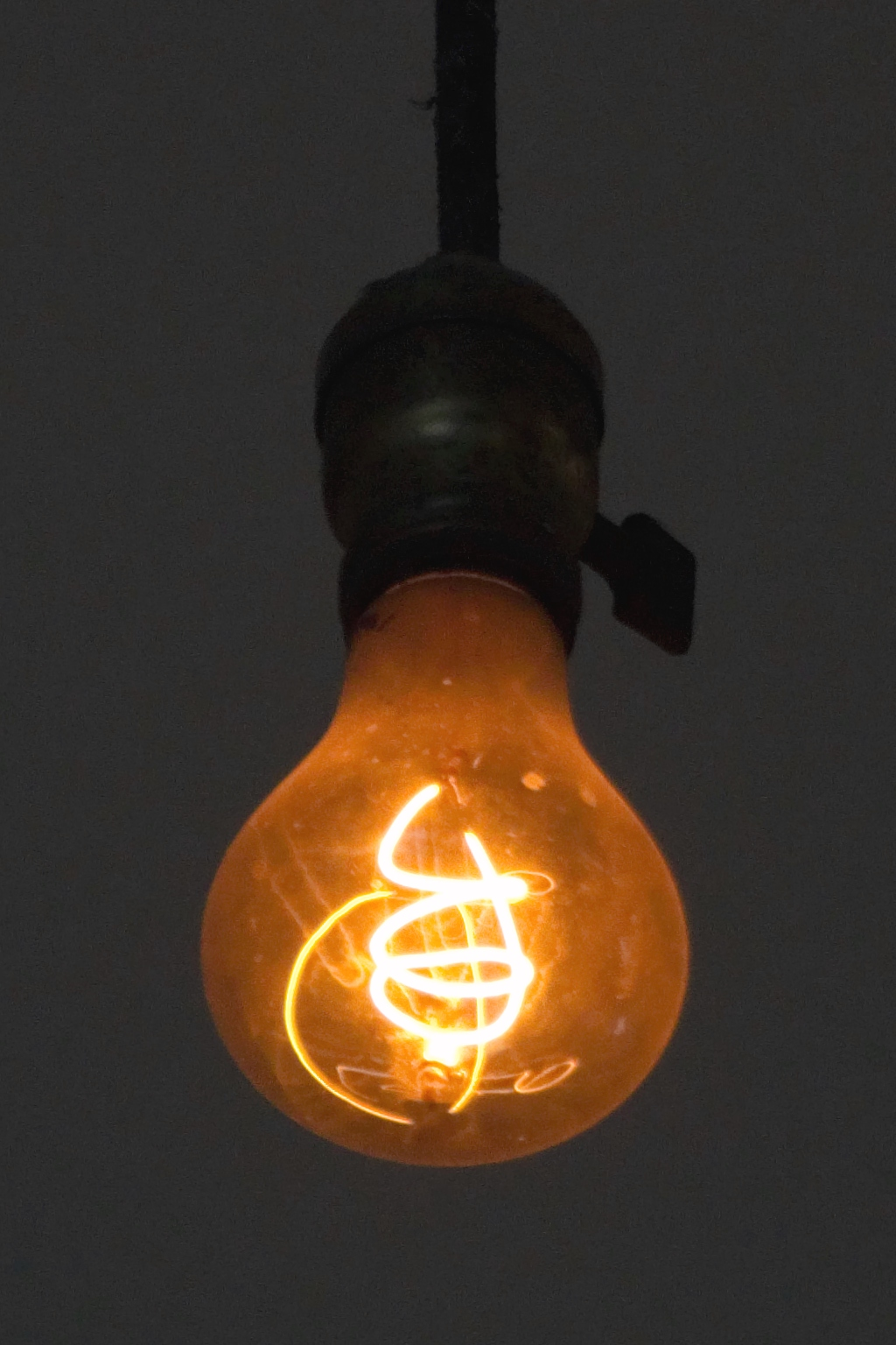 Centennial Light, Fire Station #6, Livermore, California